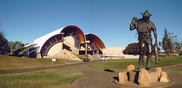 Stockman's Hall of Fame in Longreach, Queensland, Australia Photo by Michael Rogers, who retains copyright and releases the image under the GFDL.